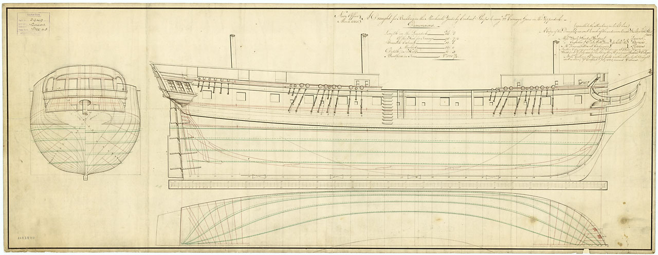 BOREAS 1806 lines